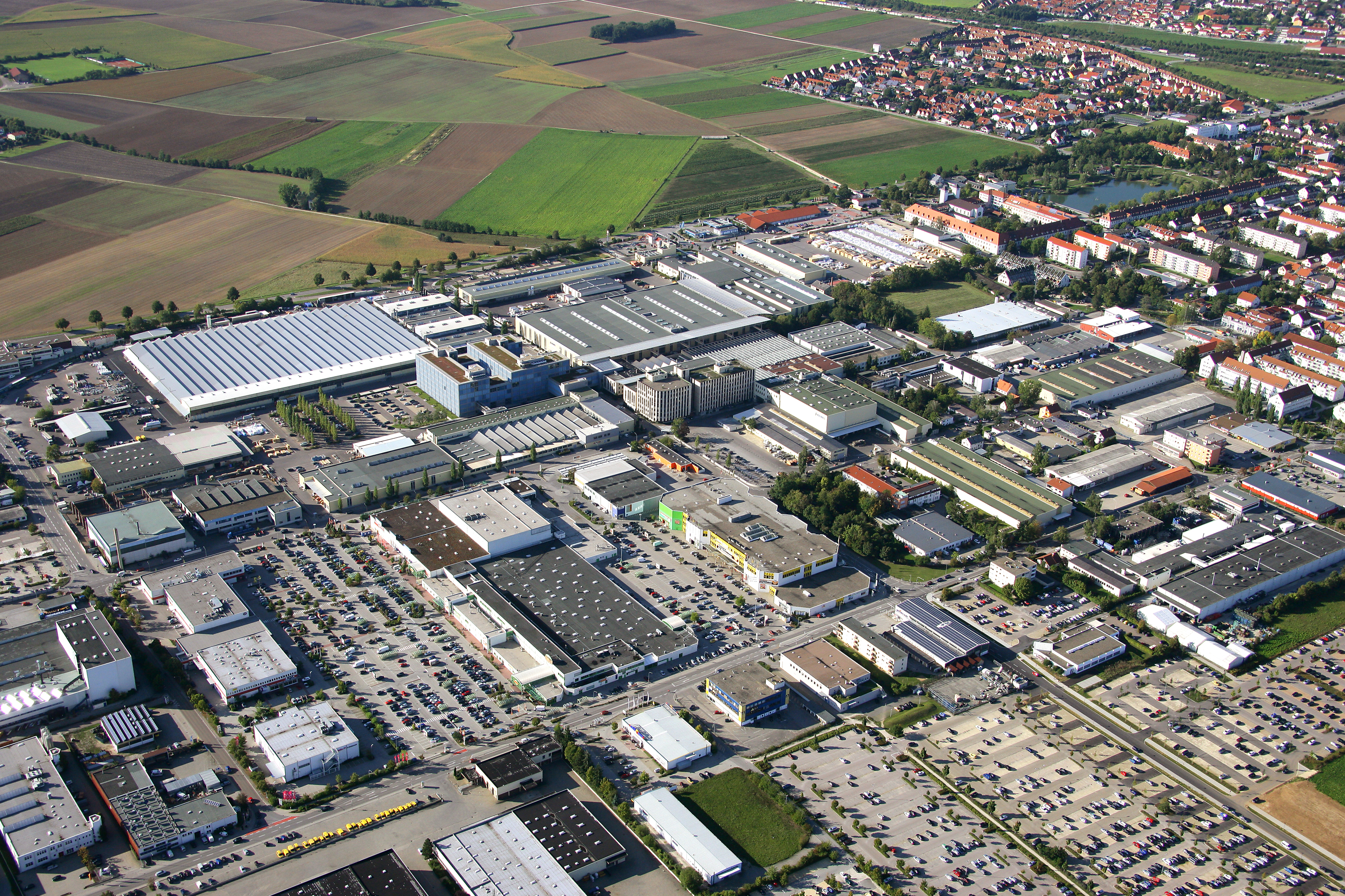 Aerial view of Krones plant grounds in Neutraubling